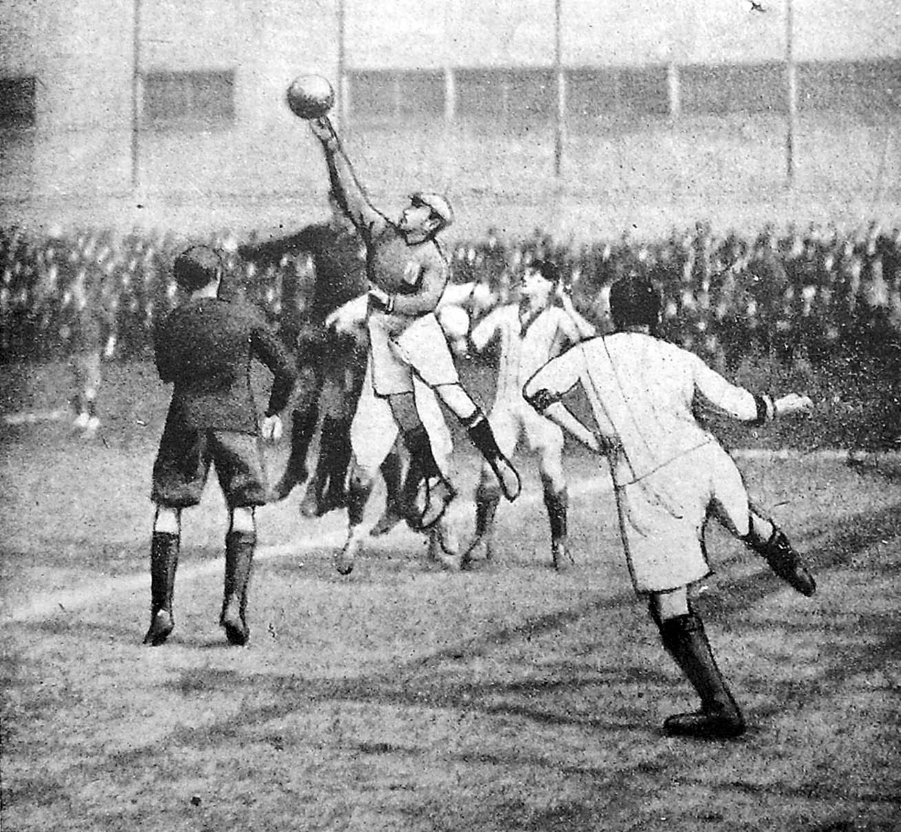 Front cover illustrating the unofficial wartime match between France and Belgium at Saint-Ouen on 21 April 1918. Pierre Chayriguès, the French goalkeeper, stands in the middle.